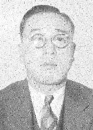 Masaji Tabata, a director of Japan Amateur Athletic Association.